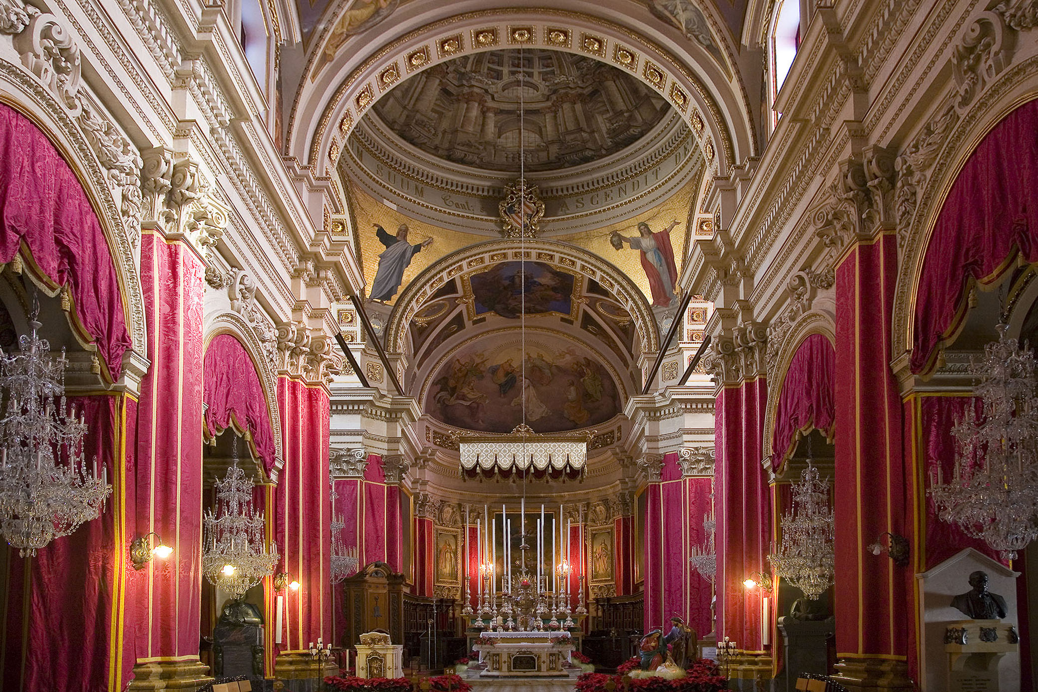 The interior of the Cathedral of Assumption inside the citadel in Victoria (Rabat), Gozo Island, Malta